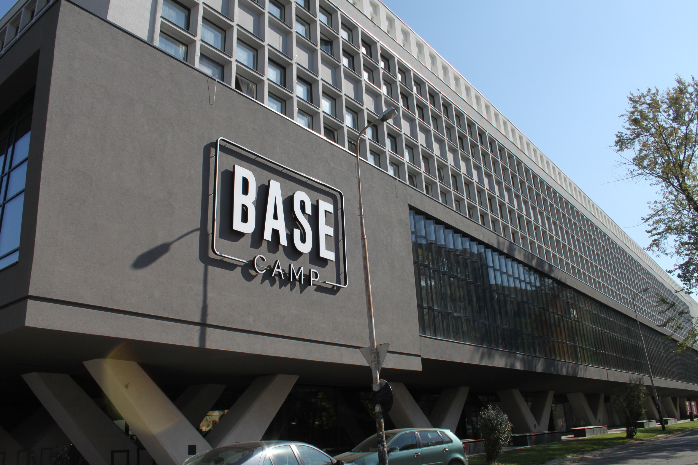 Base Camp (September 2018)